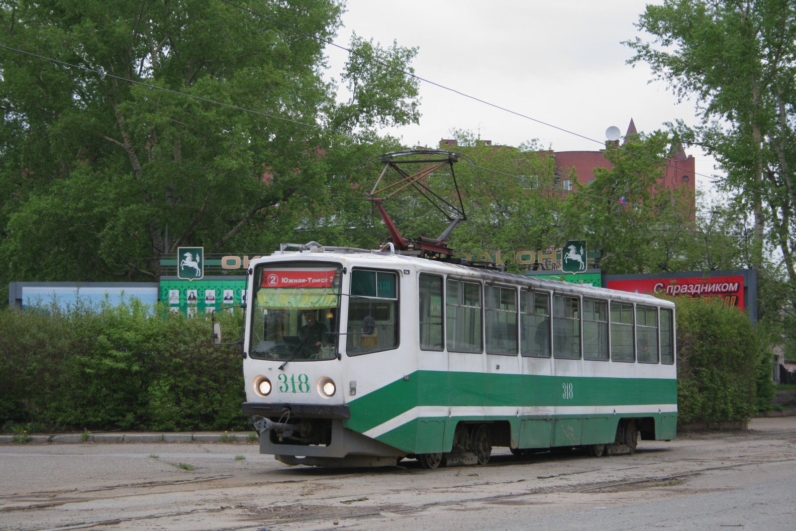 Tomsk tram KTM-8 (71-608KM) No. 318. Pushkin street.